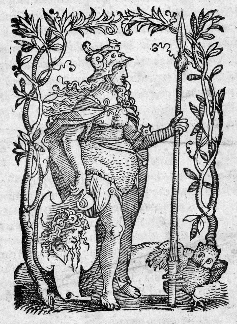 Drucker-Signet mit Pallas Athene (Minerva) (in: Bernardino Rutilio: Iuris consultorum vitae. Basel, Robert Winter, 1537. Drucker Thomas Platter und Balthasar Lasius).